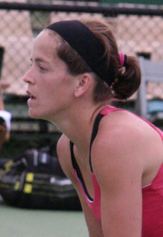 Lourdes Dominguez Lino at the 2007 Australian Open, during her first-round womens doubles match, partnering Yulia Beygelzimer.